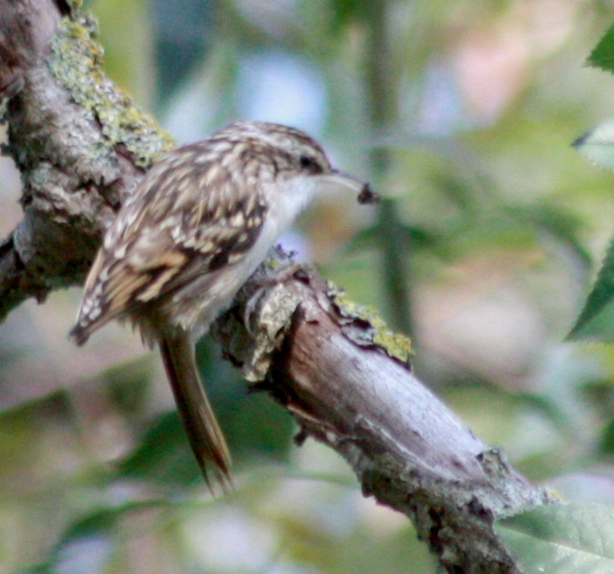 Grimpereau des jardins Certhia brachydactyla Short-toed Treecreeper